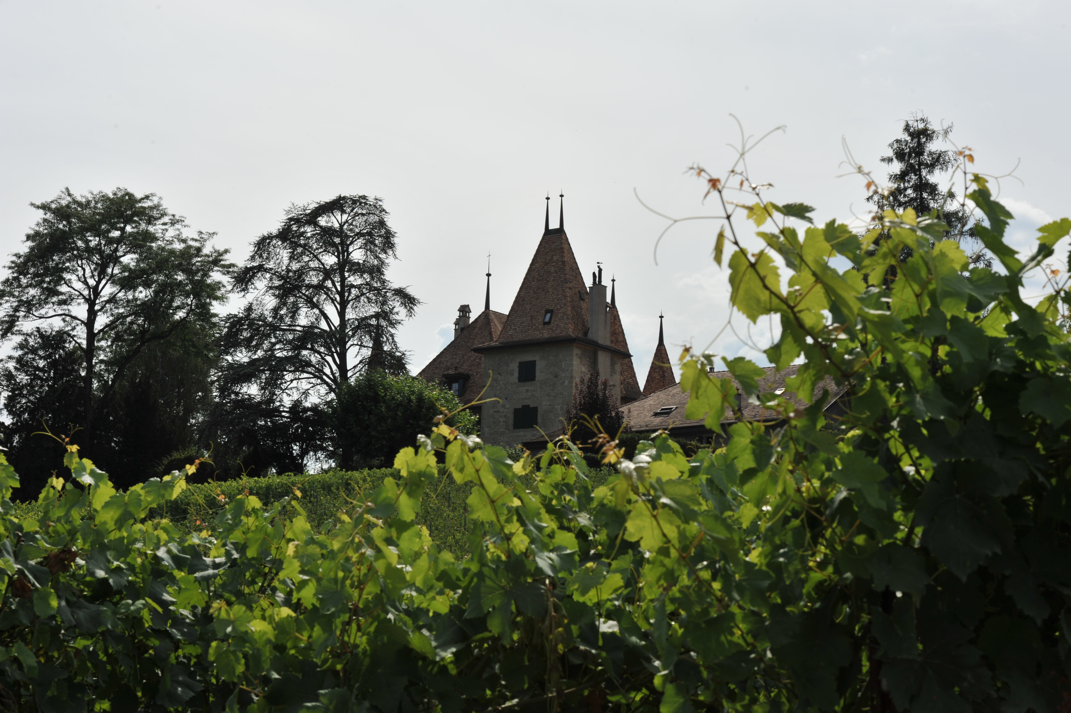 Echandens Castle in Echandens, Vaud, Switzerland